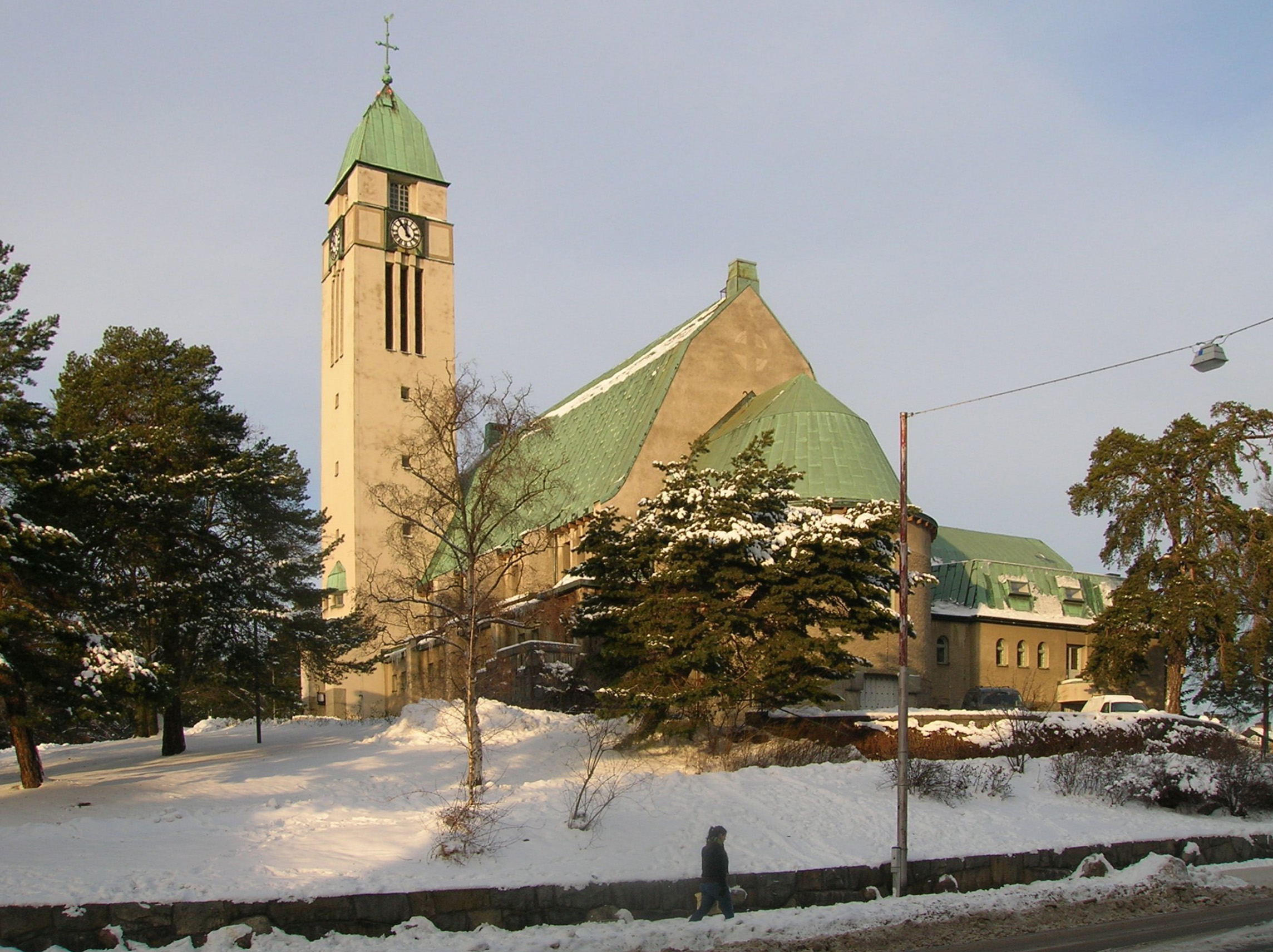 Sundbybergs kyrka in Centrala Sundbyberg, Sundbyberg municipality, Sweden